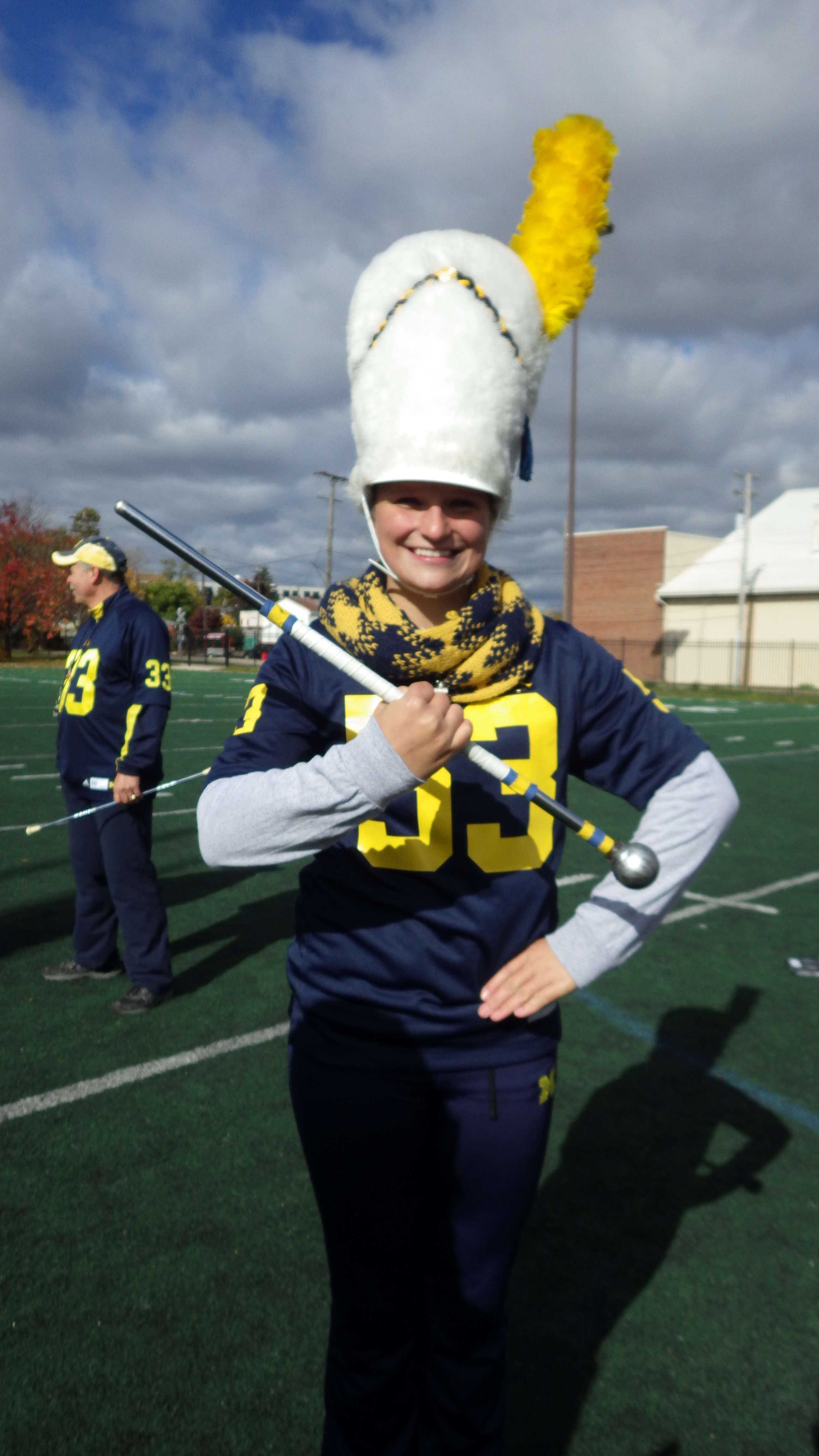 Michigan Marching Band Drum Major at Saturday morning rehearsal. October 2016. Photo by Jane Namenye